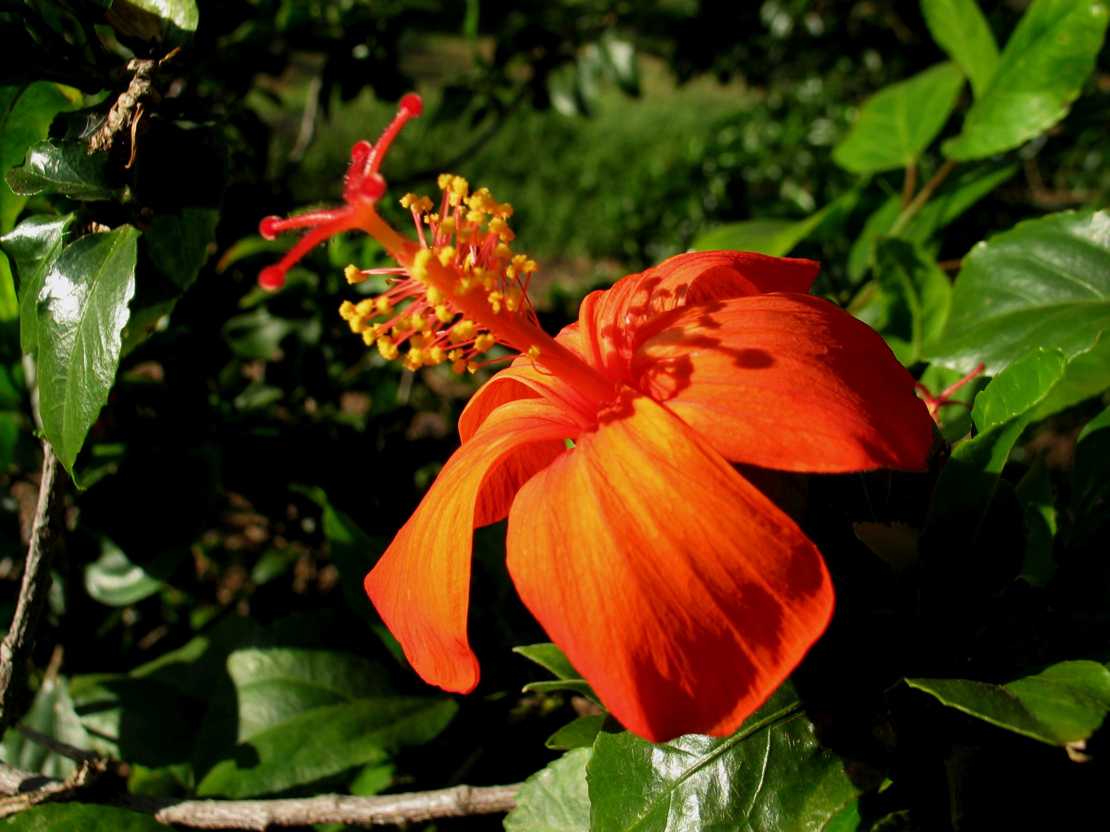 Kokiʻo ʻula or St. John's hibiscus Malvaceae Endemic to the Hawaiian Islands Endangered Kauaʻi (Cultivated) Kokiʻo was pounded with other plants, juice strained, and taken to purify blood. The leaves were chewed and swallowed as a laxative or mothers would chew buds and given to infants and children as a laxative. Mother would also chew the buds and give to children or children would eat the seeds to strengthen a weak child. NPH00008